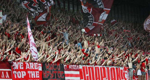 Hands in the air